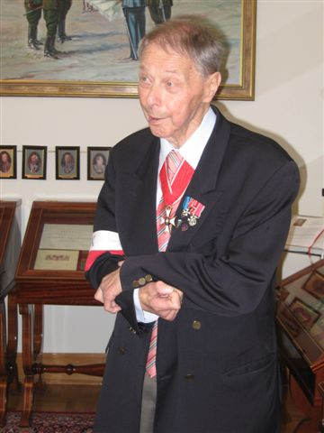 Janusz Brochwicz-Lewiński (1920-2017), Polish military officer, soldier of World War II